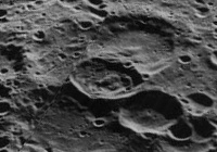 Oblique view of Dawson (center), with Dawson V (above right of center), and Dawson D (below right of center), on the far side of the moon, facing west.